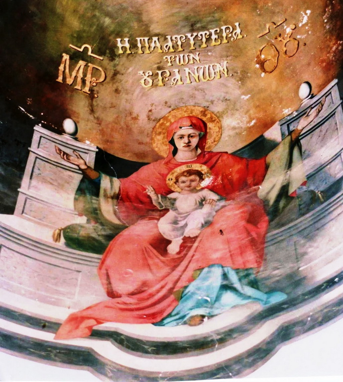 Platytera of Heaven